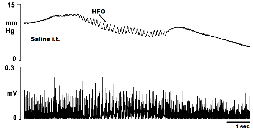 Example cystometrogram in a rat. Shows injection of saline intrathecally and corresponding EMG of the external urethral sphincter during expulsion. HFO=high frequency oscillations during expulsion.